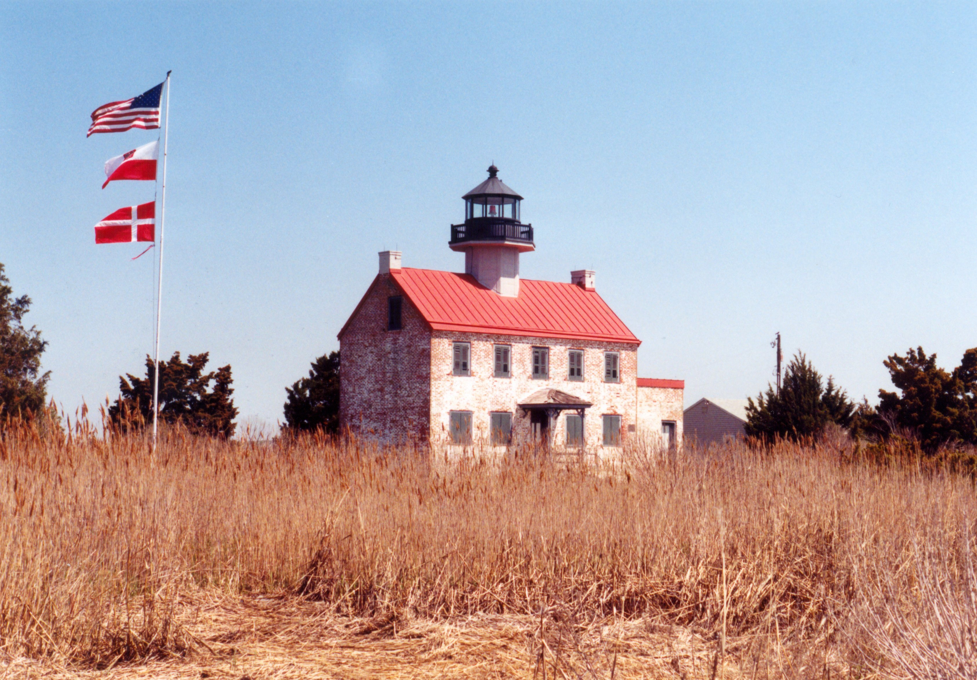 East Point Light, near Heislerville, New Jersey, Maurice River, Delaware BayLocation: 39°11′45″N 75°01′38″W / 39.19583°N 75.02722°W